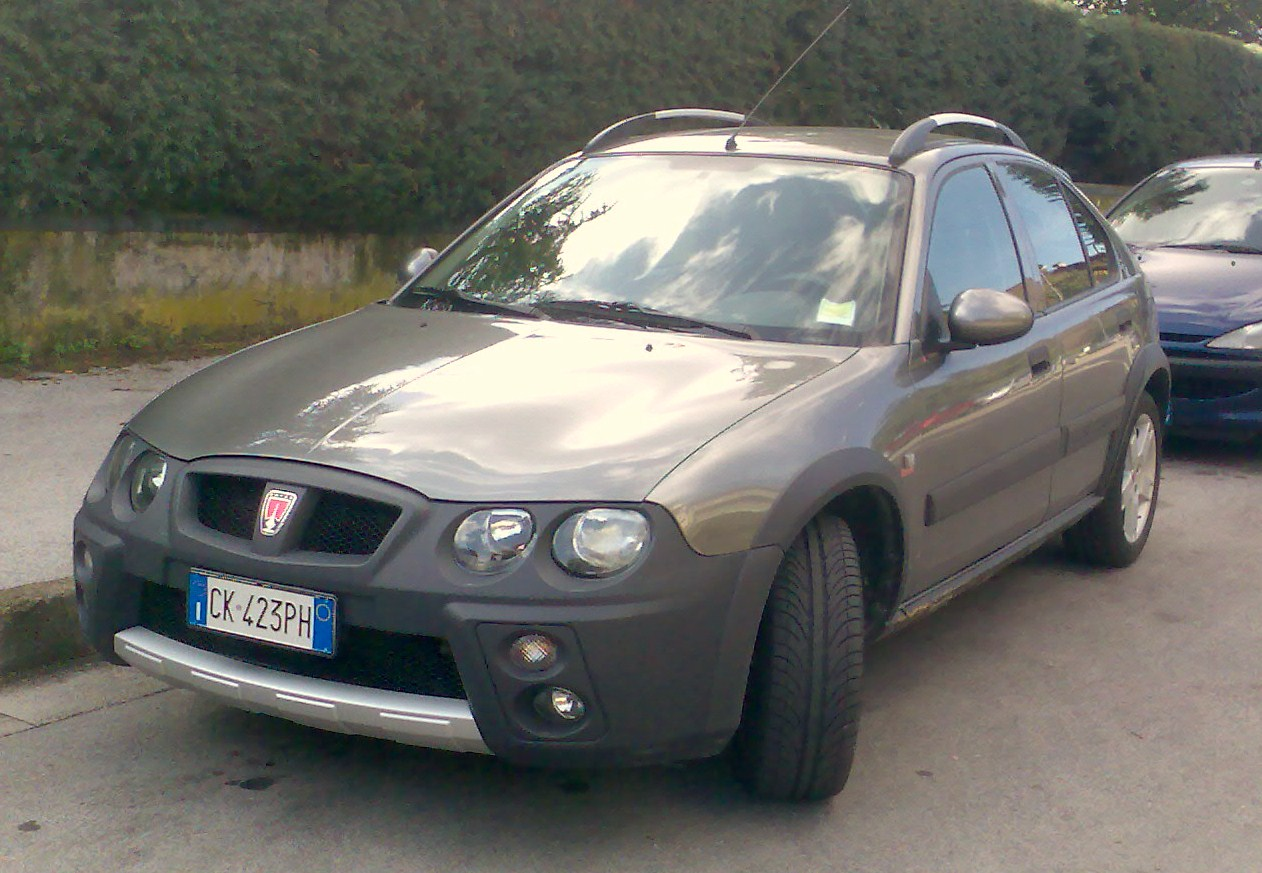 Rover Streetwise